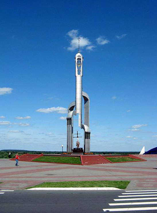 The Orthodox Chapel of St. Euphrosyne (1995)